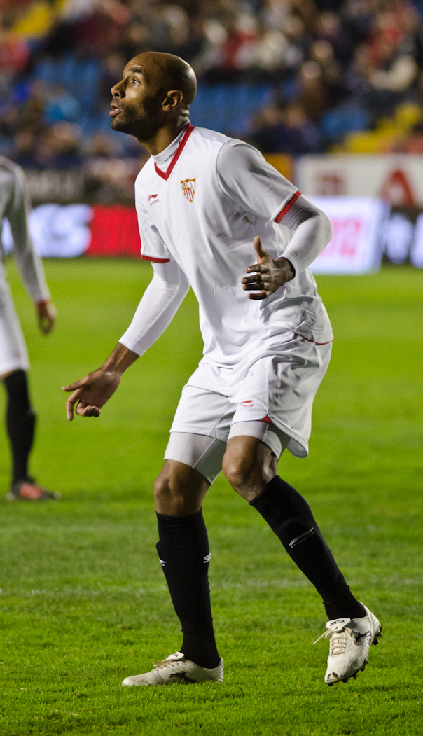 Frédéric Kanouté, football player from Mali while playing for Sevilla FC